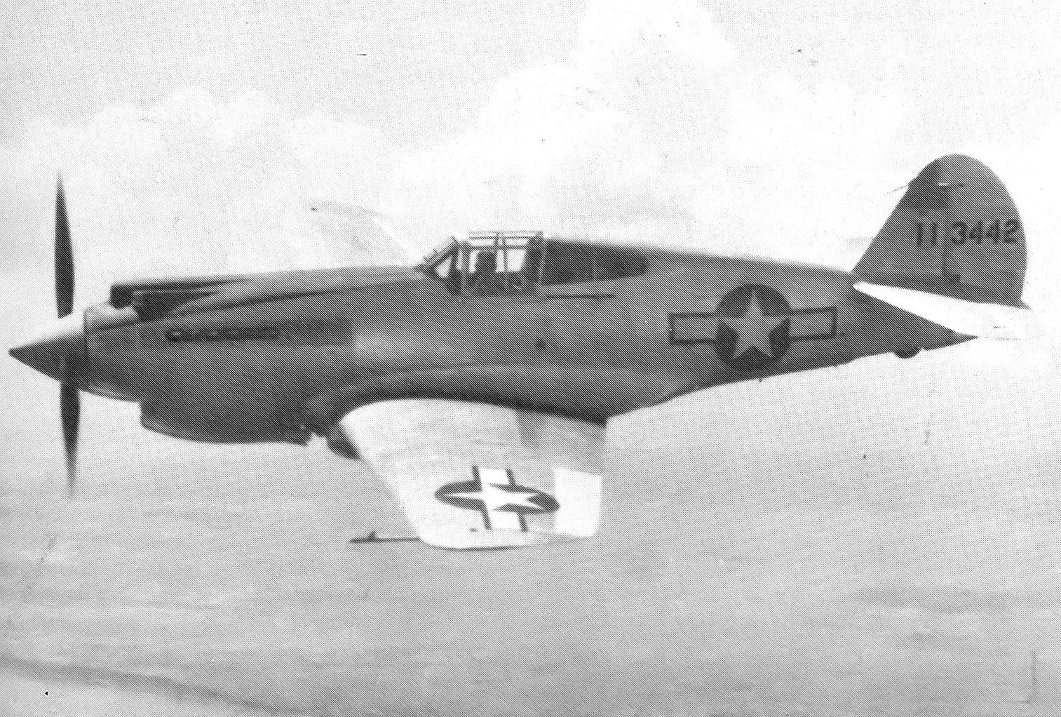 51st Fighter Squadron Curtiss P-40C 41-13442 in natural aluminum